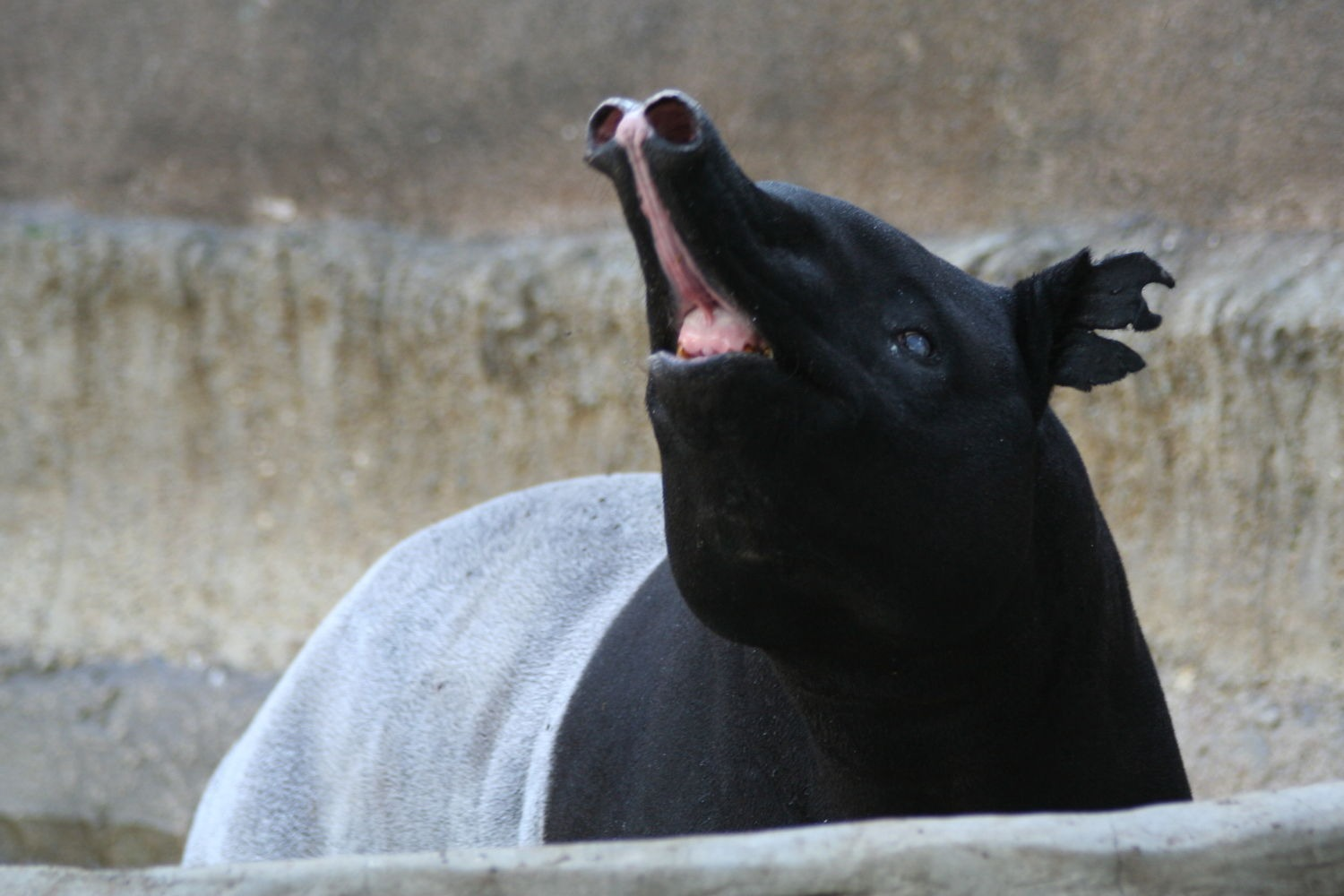 Tapir at the San Diego Zoo, taken and uploaded by Sepht.